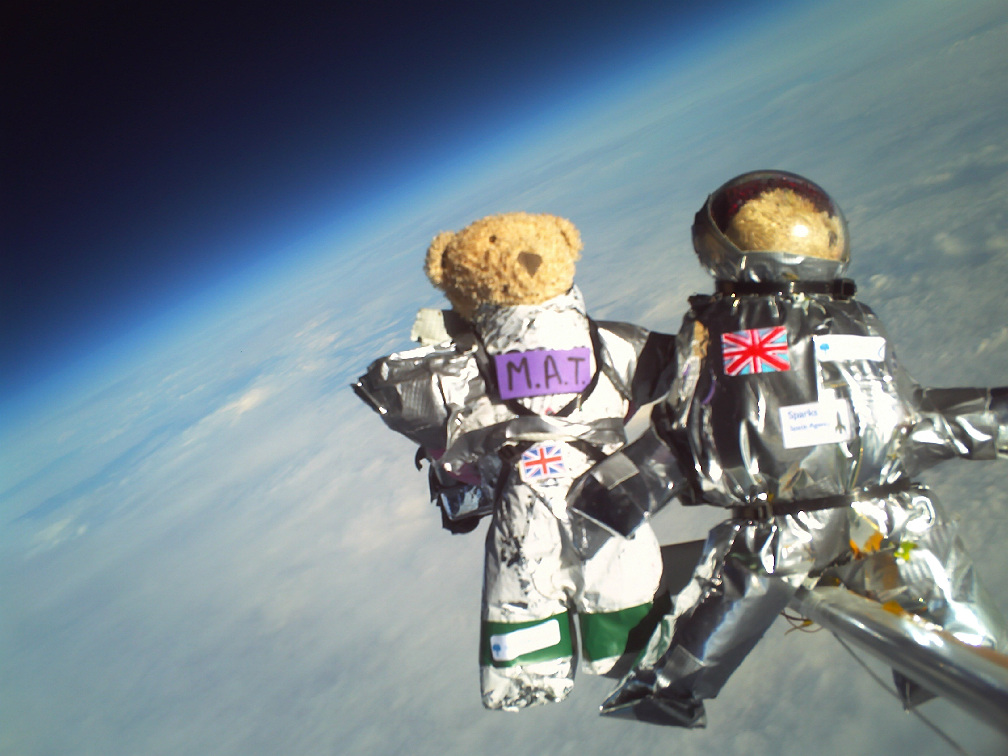 Four teddy bears travelled(voyaged) to the edge of space in an experiment run by Cambridge University Spaceflight, with the SPARKS science club at Parkside Community College and Coleridge Community College. The bears were lifted to 30,085 metres above sea level on a latex high altitude balloon filled with helium. The aim of the experiment was to determine which materials provided the best insulation against the -53 ° C temperatures experienced during the journey. Each of the bears wore a different space suit designed by the 11-13 year olds from SPARKS.